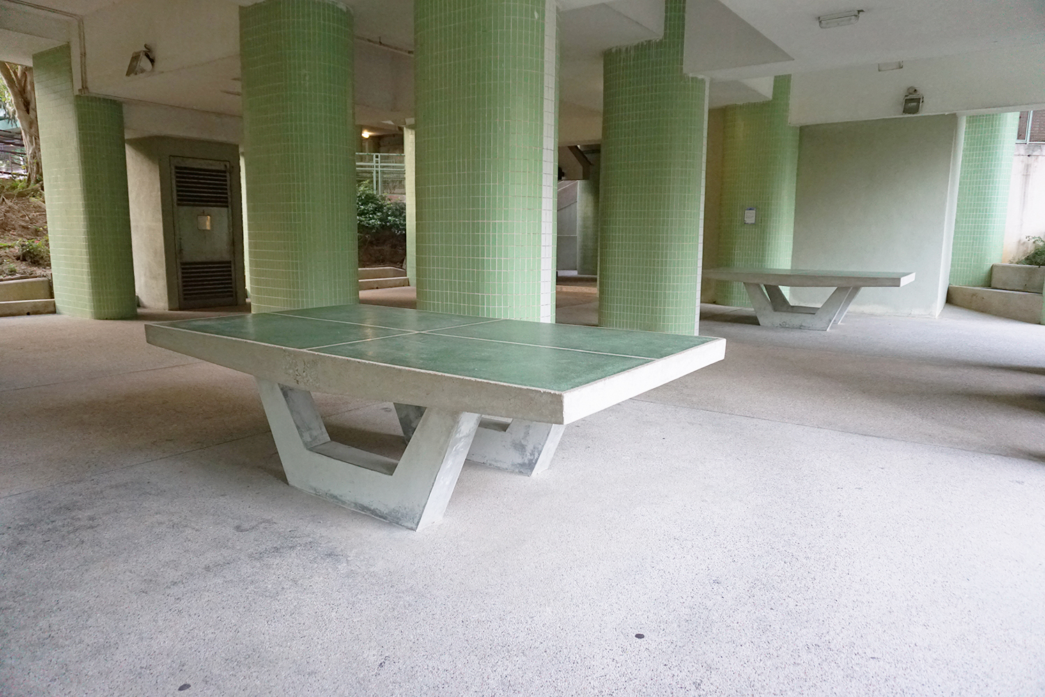 Ma Hang Estate in Stanley, Hong Kong.